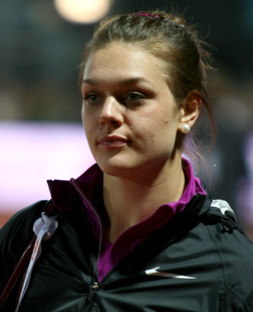 Sandra Perković in Zagreb, 2010